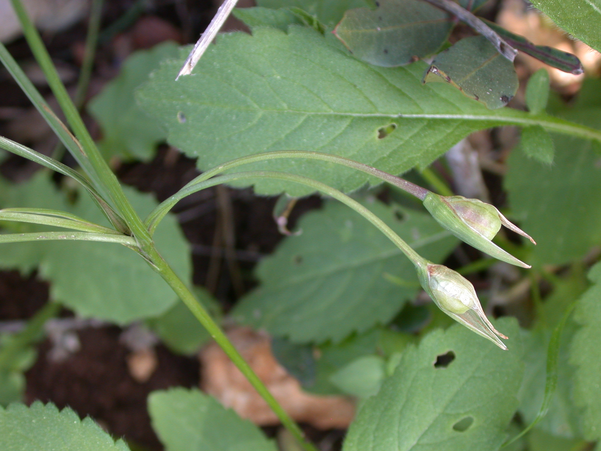 Capsules of Romulea phoenicia Mouterde, Mount Carmel, Israel, March 7, 2008.